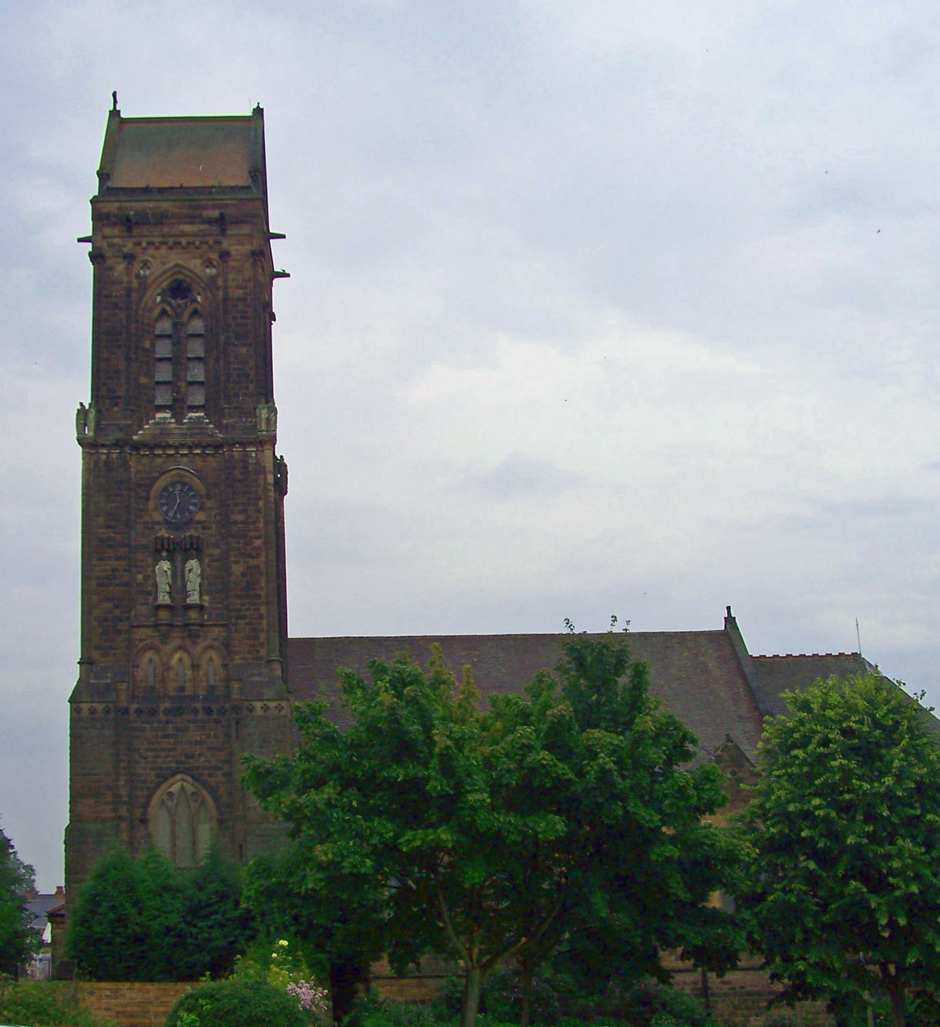 St Lukes Stockbrook St Derby.